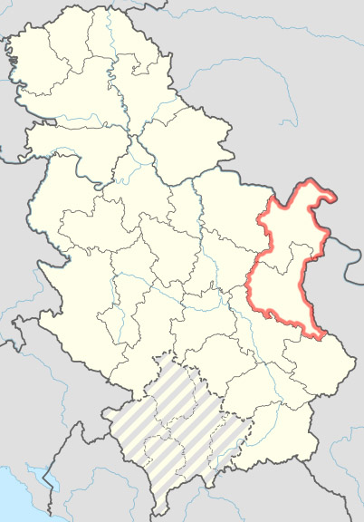 Map of Serbia with districts, with Timočka Krajina highlighted in red, that is Bor District and Zaječar District. The region has no official status; the extent to which "Timočka Krajina" extends is unclear, but within these two districts.